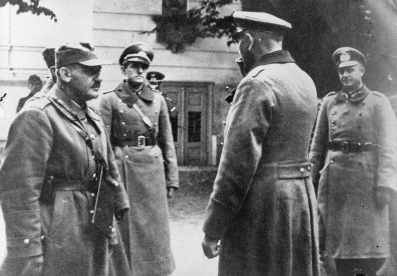 The Nazi-soviet Invasion of Poland, 1939 General Wiktor Thommée, the Commander of the Modlin Fortress near Warsaw, (or general Leopold Cehak), negotiating the surrender conditions with General Adolf Strauss, the Commander of German Second Corps.